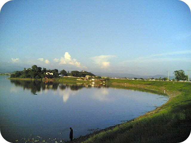 View of Rawal Lake in Pakistan.